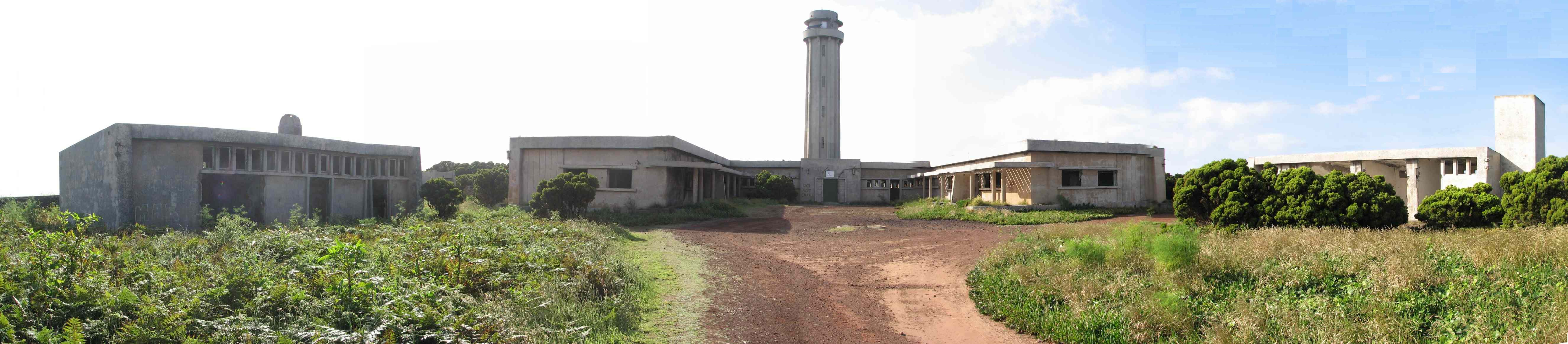 The abandoned lighthouse of Rosais, S. Jorge, Azores. The buildings were abandoned after the January 1st, 1980, severe earthquake that hit the island.